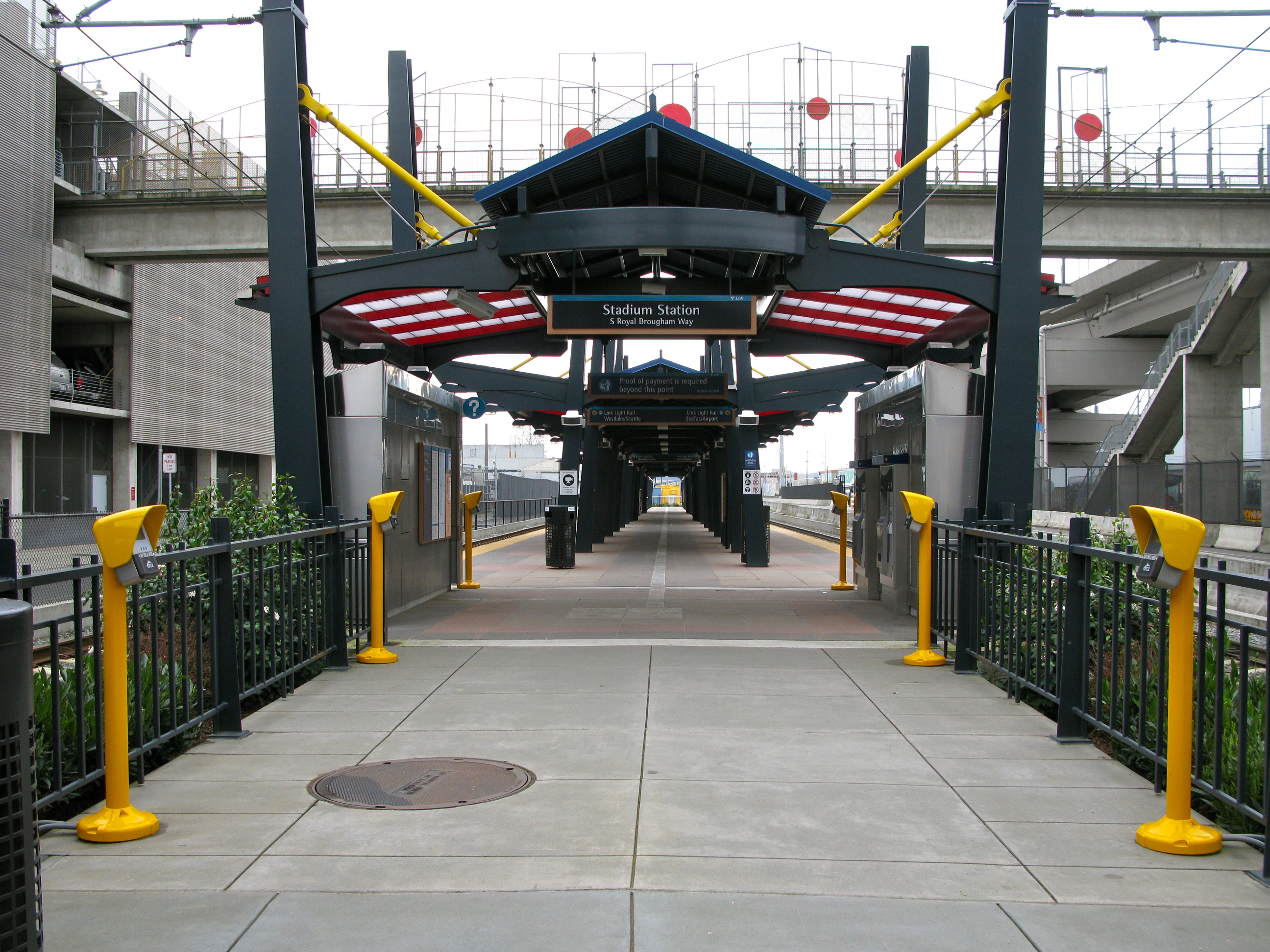 ORCA card readers at the northern entrance to Stadium Station in Seattle, Washington.